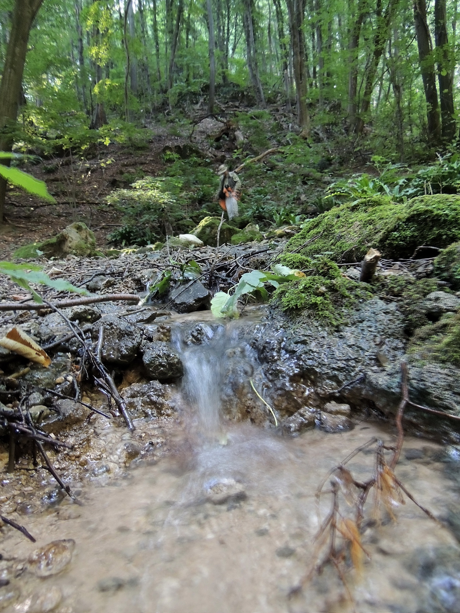 Ово је фотографија заштићеног природног добра у Србији под шифром: НП01 This is a a photo of a natural area in Serbia with ID: НП01 Snimljeno fotoaparatom Nikon Coolpix P510